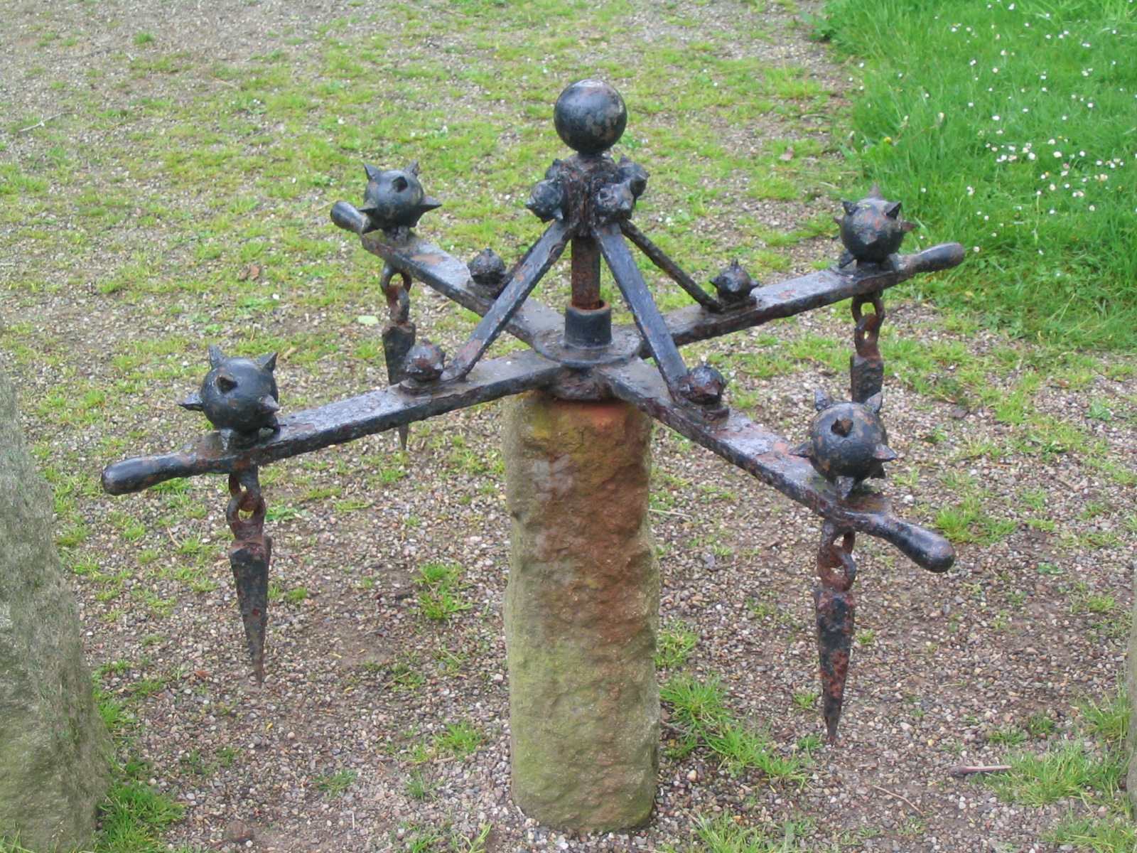 At the Dusendüwelswarf